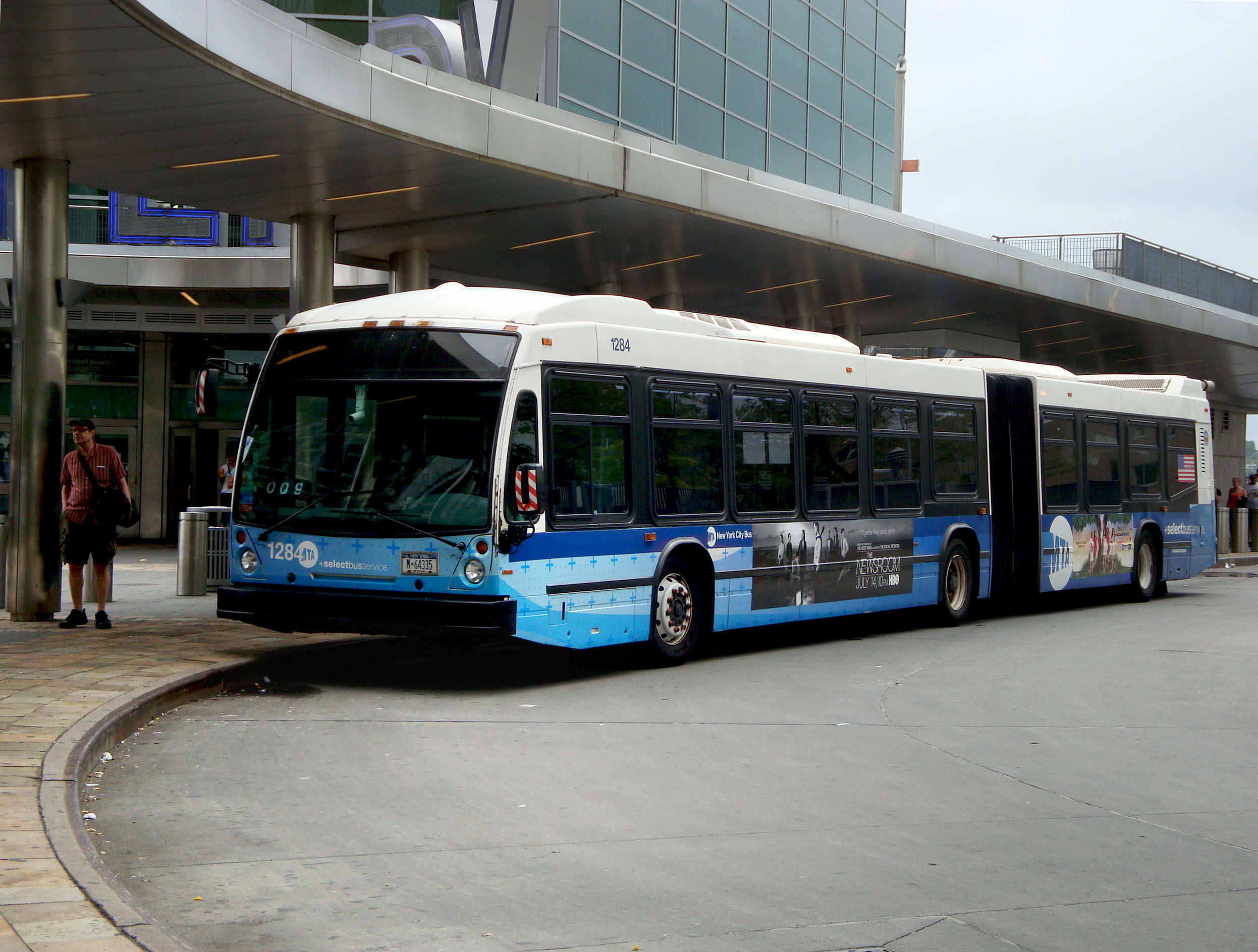 Novabus LFS Vehicle used on Select Bus Service routes in New York City